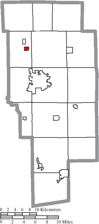 Map of the municipal and township boundaries of Ashland County, Ohio, United States, as of the 2000 census, with the location of the village of Bailey Lakes highlighted. Township borders are shown only in unincorporated areas in order to differentiate incorporated and unincorporated areas more clearly.